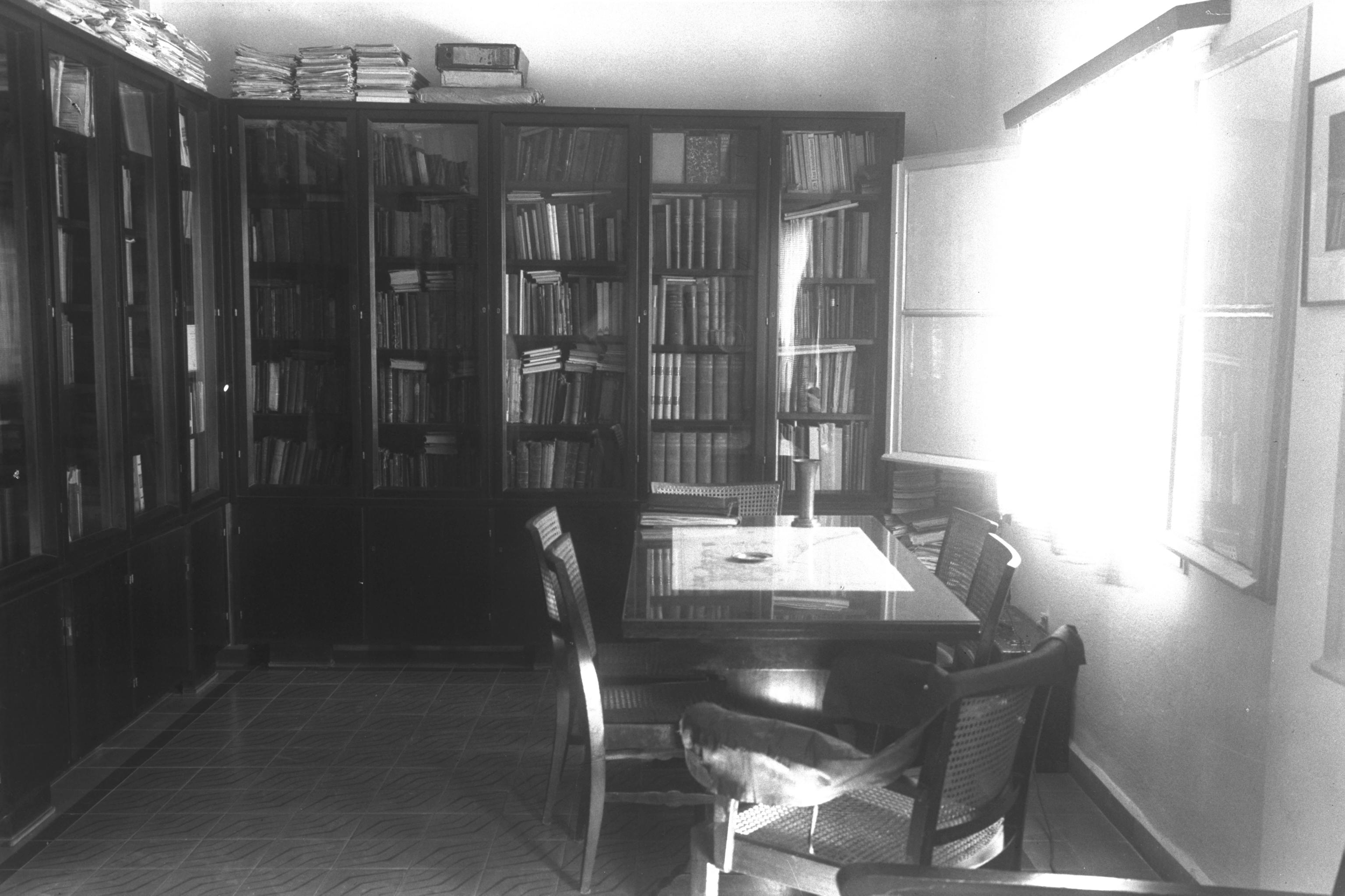 THE STUDY OF LABOUR LEADER BERL KATZENELSON. לשכתו של ברל כצנלסון.